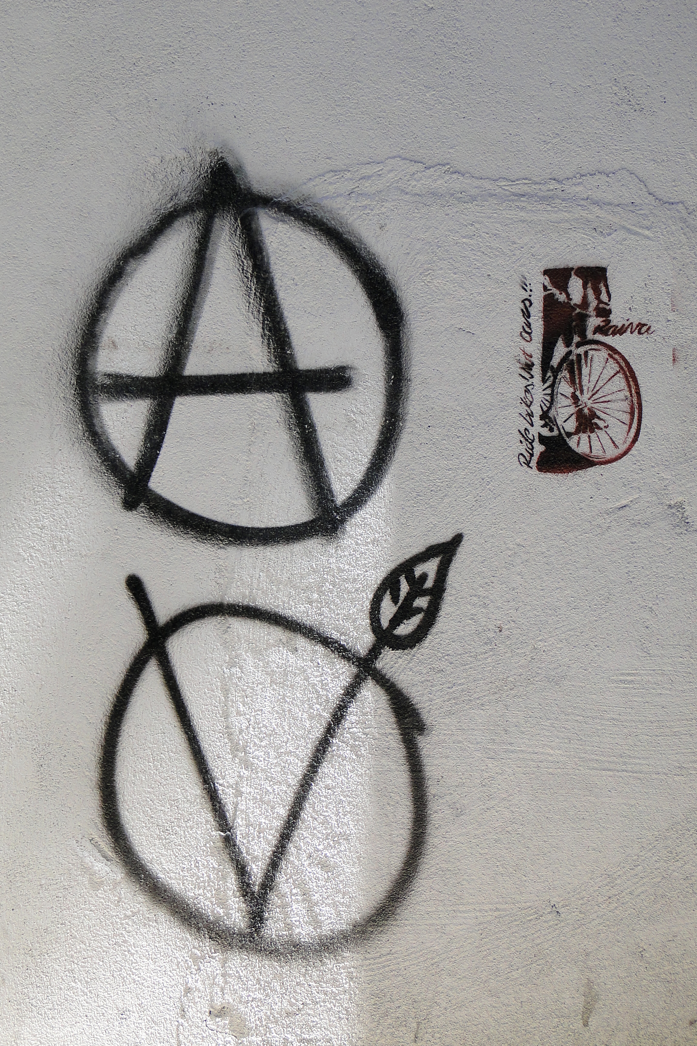 Anarchist and Ecological Symbols - Graffiti - Lisbon, Portugal